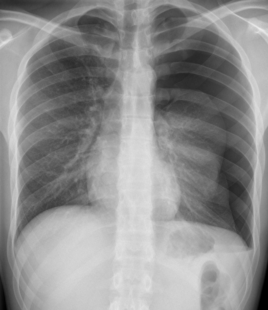 Pneumothorax in a young man with chest pain. Notice the air-fluid-level in the lateral left recessus.